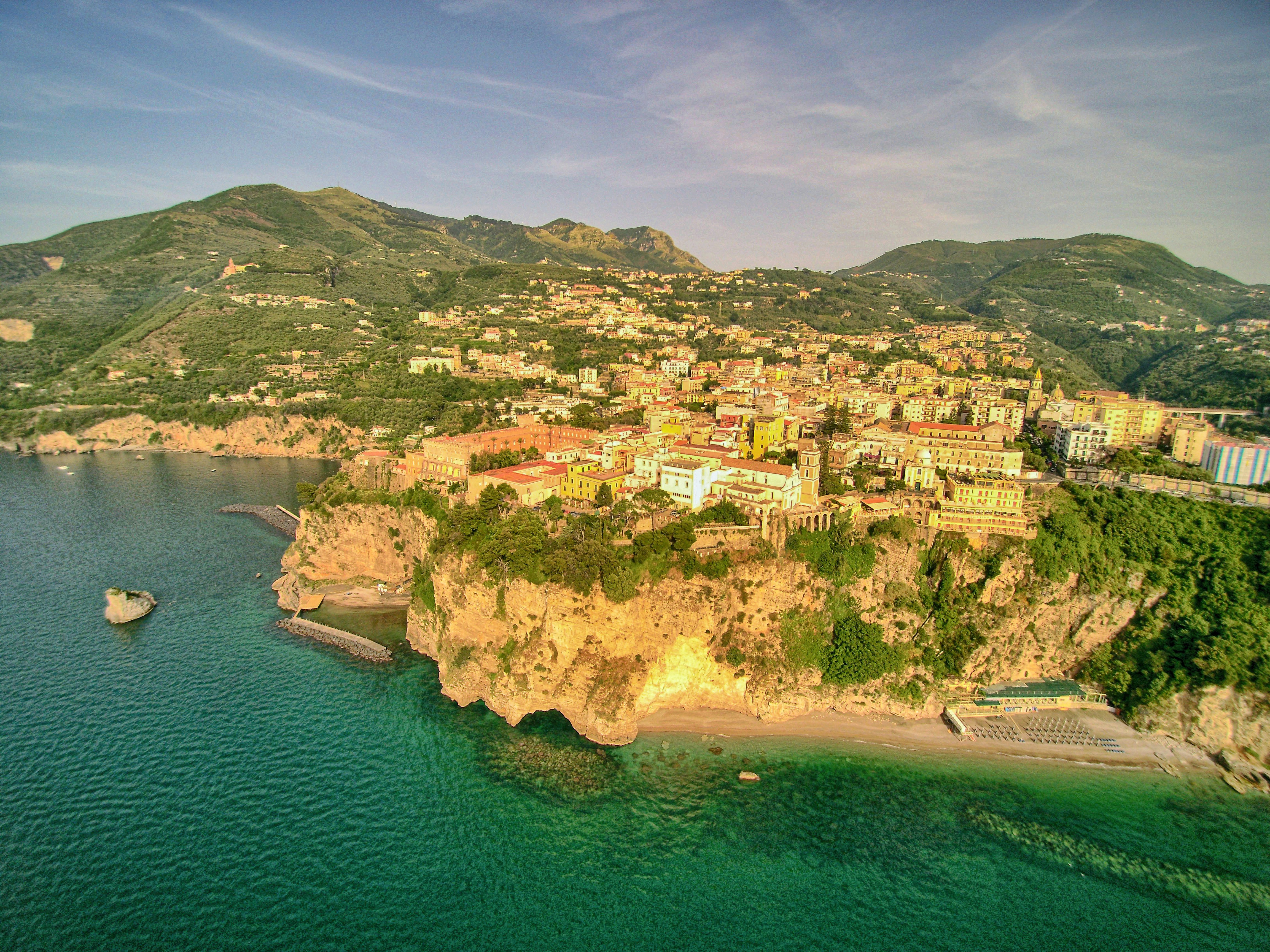 Vico Equense (Neaples) seen from the sea with a drone.